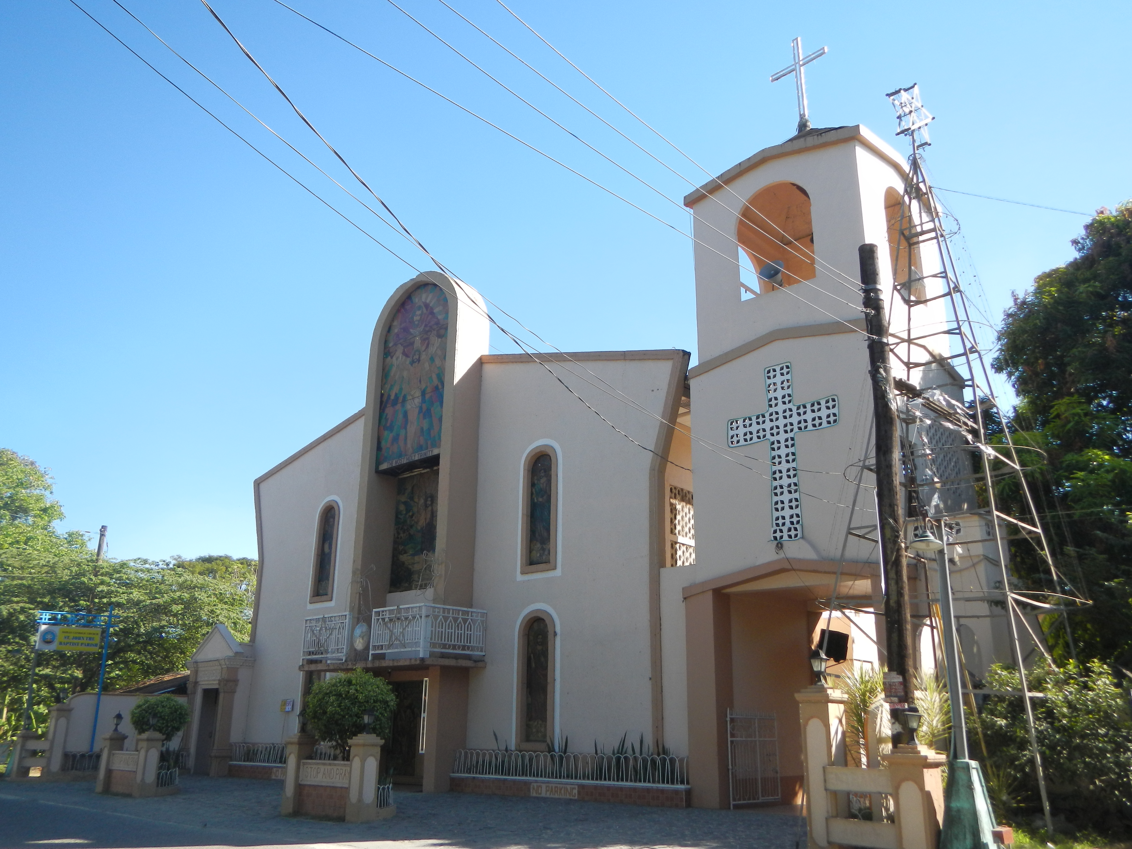 1723 St. John the Baptist Parish Church, Bautista, Pangasinan, Vicariate of St. Ildephonse, 2424 Pangasinan Tel. 592-3407 Population: 21,280; Catholics: 19,547 Titular: St. John the Baptist, June 24 Parish Priest: Rev. Rafael Mesa Roman Catholic Archdiocese of Lingayen-Dagupan[1][2] Bautista, Pangasinan[3]